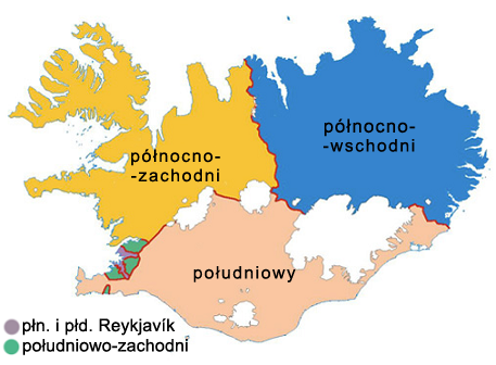 The map is based on one from the website of the Land Survey of Iceland where it is stated that it may be used for any purposes without a special permission.